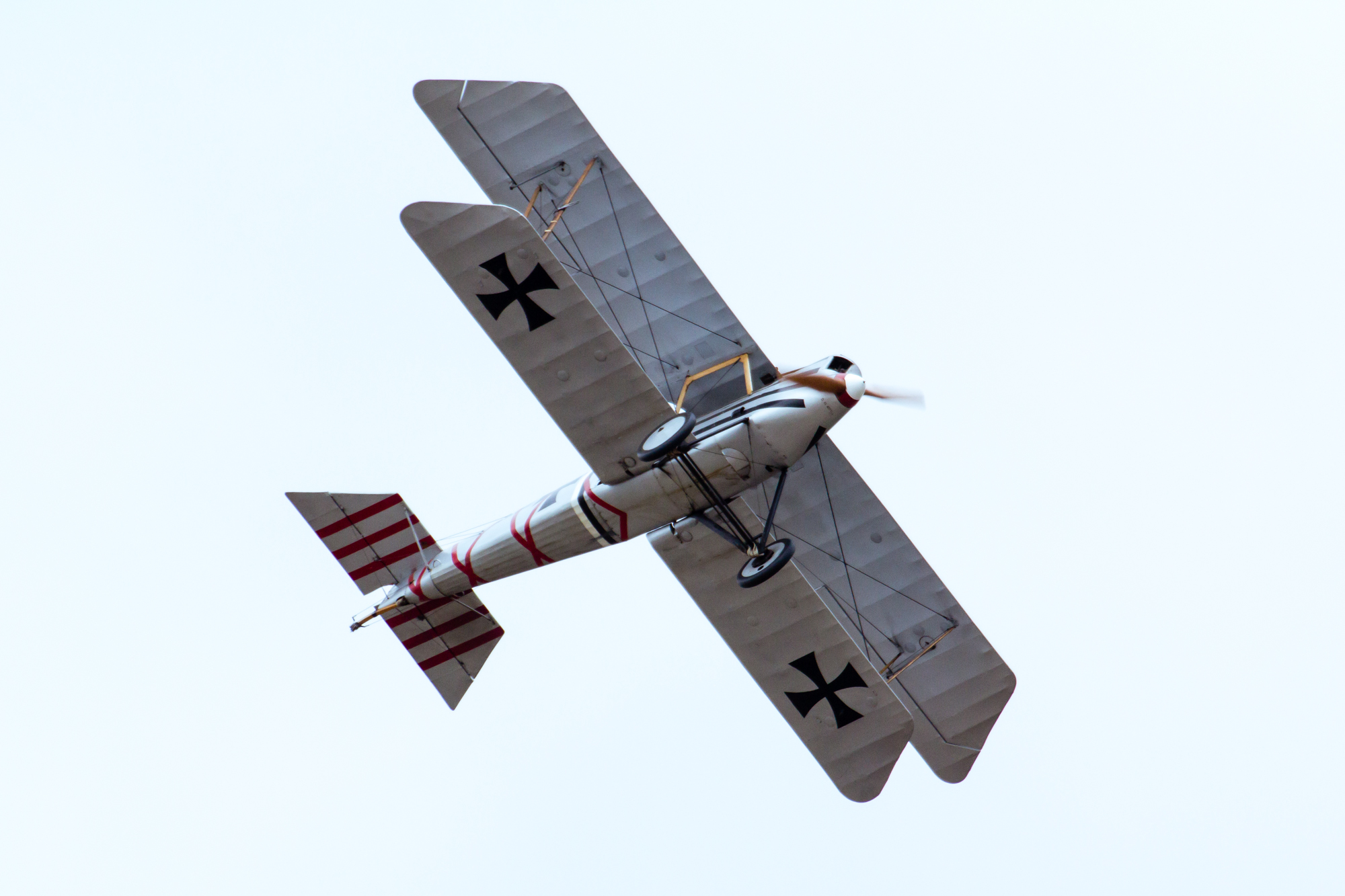 Classic Fighters 2015 - Pfalz D.III ZK-FLZ